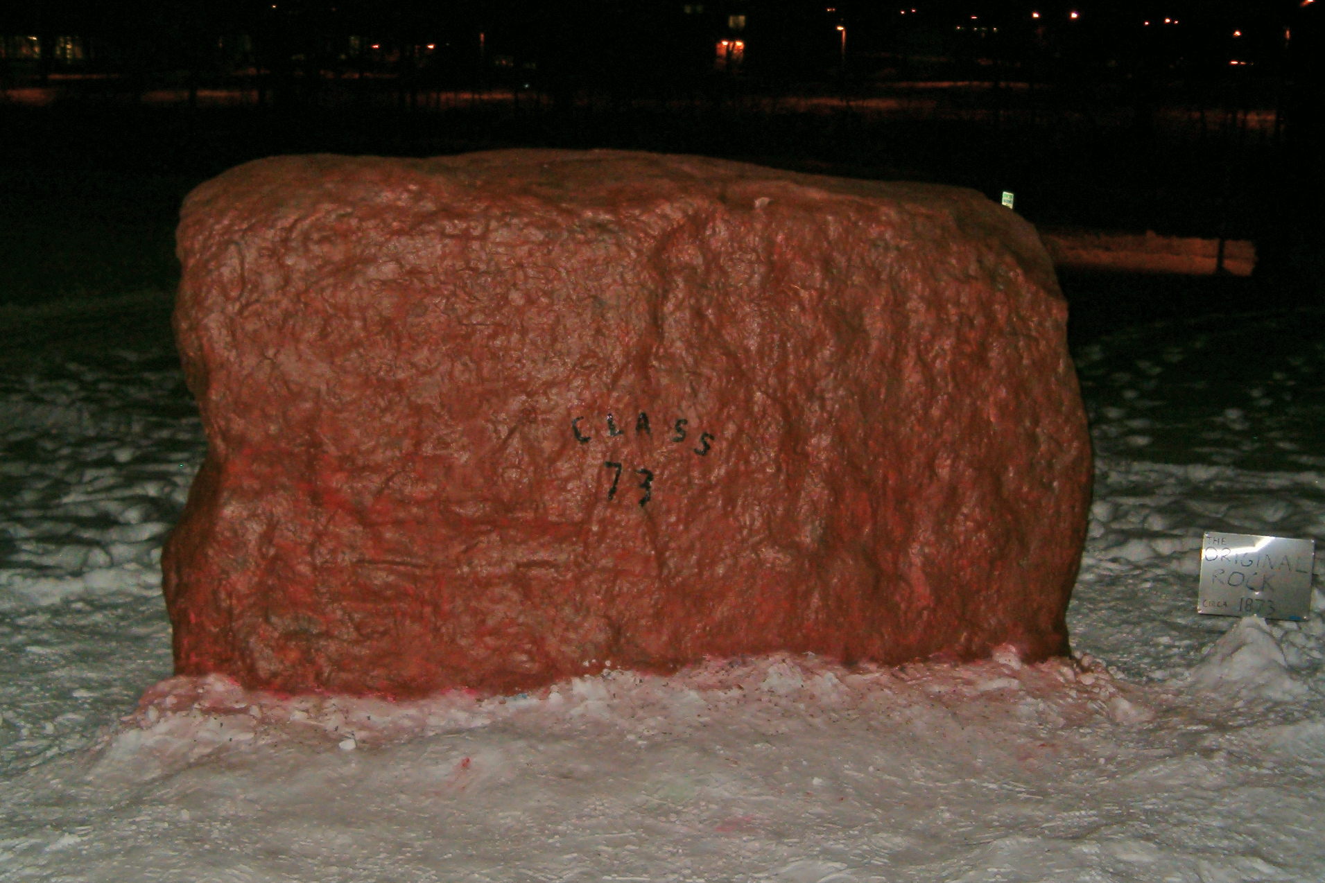 The Rock on the campus of Michigan State University, painted as it would have looked in 1873.